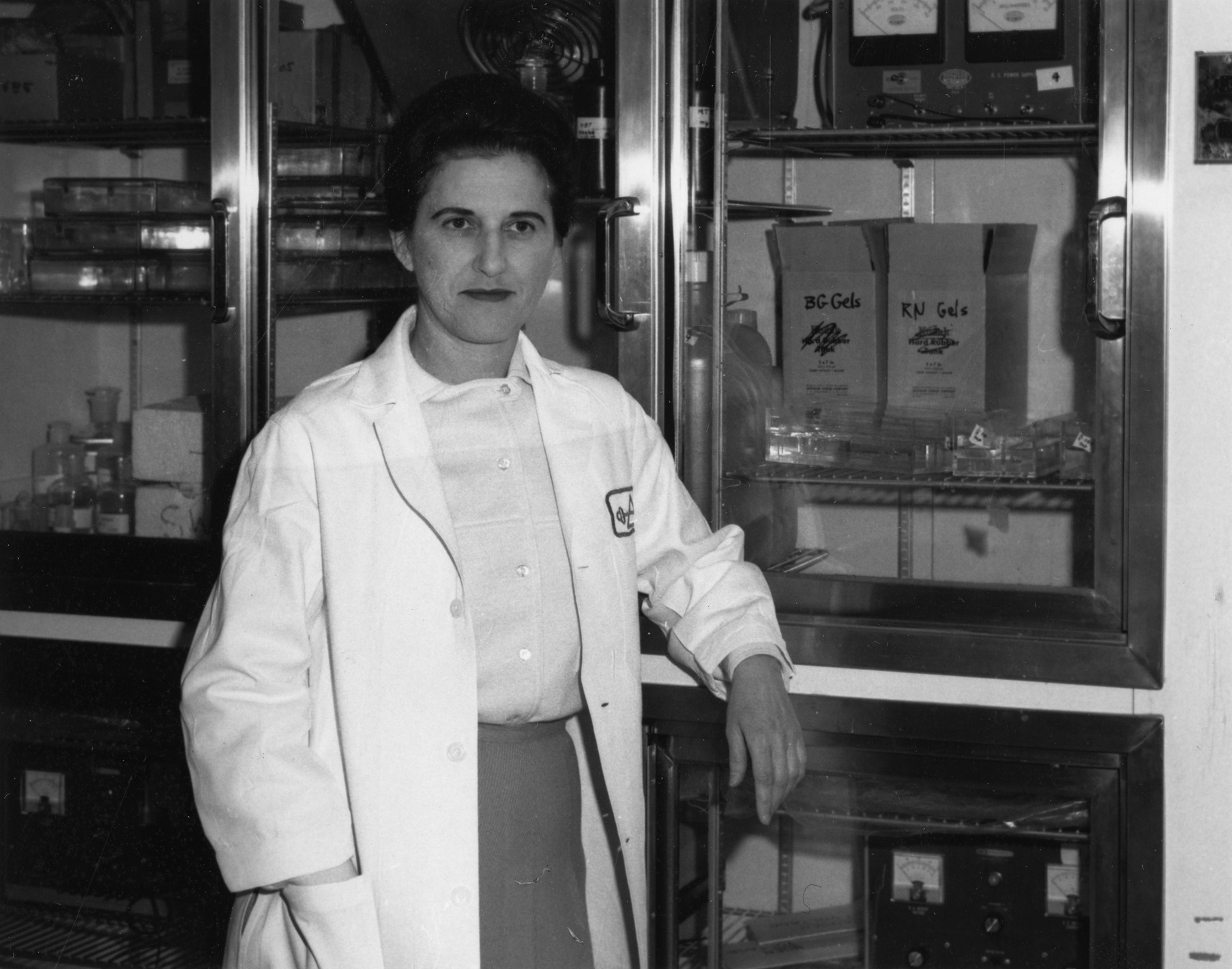 Subject: Mintz, Beatrice b. 1921 University of Chicago Institute for Cancer Research (Philadelphia, Pa.) University of Pennsylvania Hunter College b University of Iowa Type: Black-and-white photographs Topic: Biology Cancer--Research Women scientists Local number: SIA Acc. 90-105 [SIA2009-0929] Summary: Biologist Beatrice Mintz (b. 1921) was a professor at the University of Chicago, 1946-1960, before joining the Institute for Cancer Research (now called the Fox Chase Cancer Center) and then becoming a professor at the University of Pennsylvania in 1965. She had attended Hunter College, (A.B., 1941) and University of Iowa (Ph.D., 1946) Cite as: Acc. 90-105 - Science Service, Records, 1920s-1970s, Smithsonian Institution Archivess Persistent URL:Link to data base record Repository:Smithsonian Institution Archives View more collections from the Smithsonian Institution.